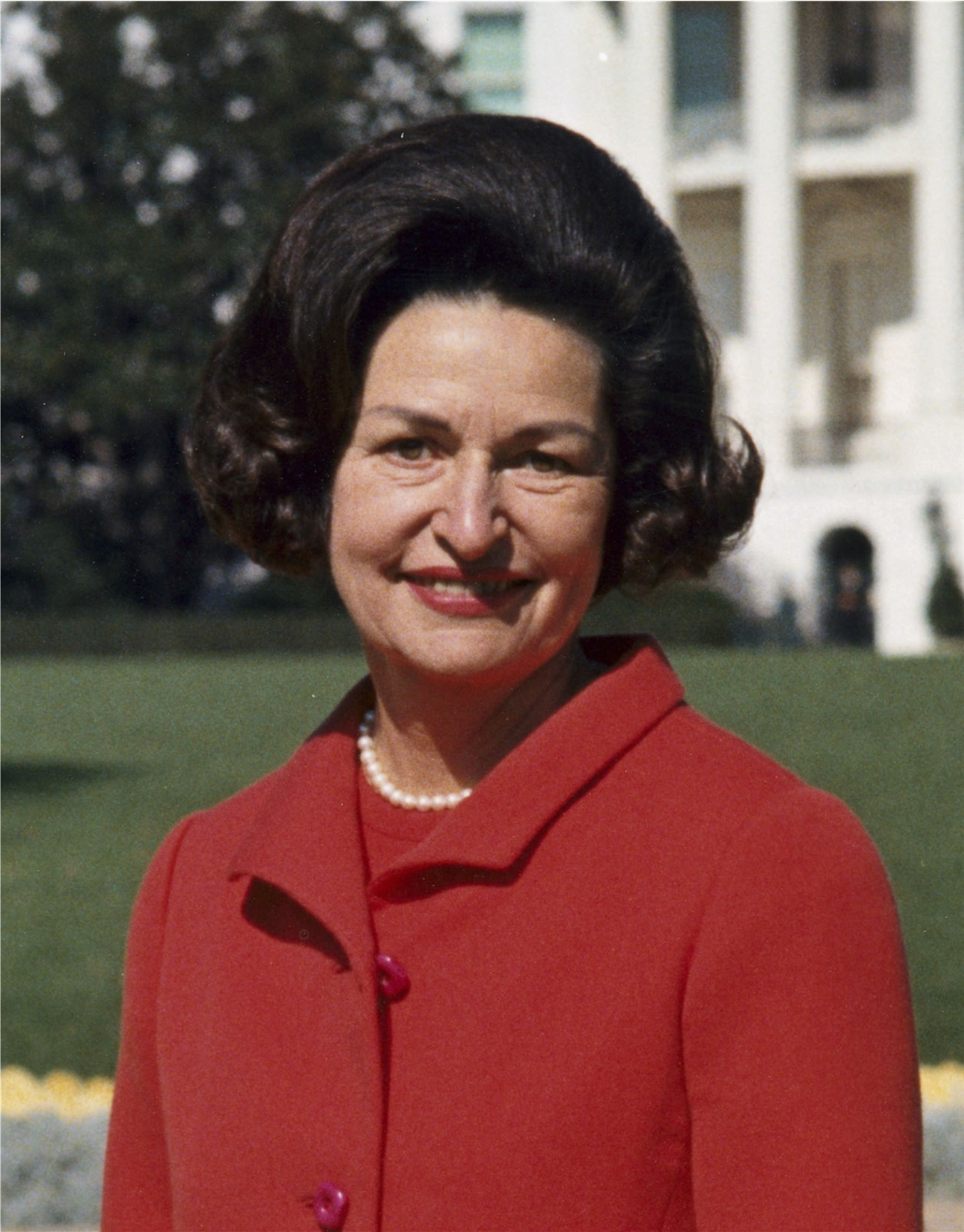 Photo portrait of First Lady Lady Bird Johnson in the back yard of the White House, cropped to use in article